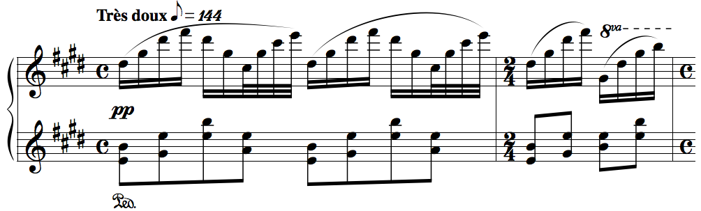 Ravel's Jeux d'eau (Dancing Water), the First two bars.